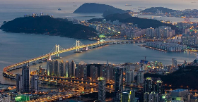 Montage of various Busan images